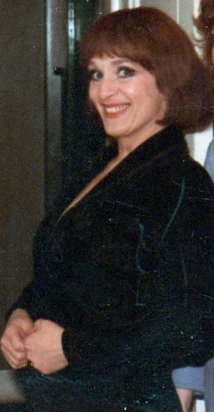 Siw Malmkvist (Luisa) in the musical NINE